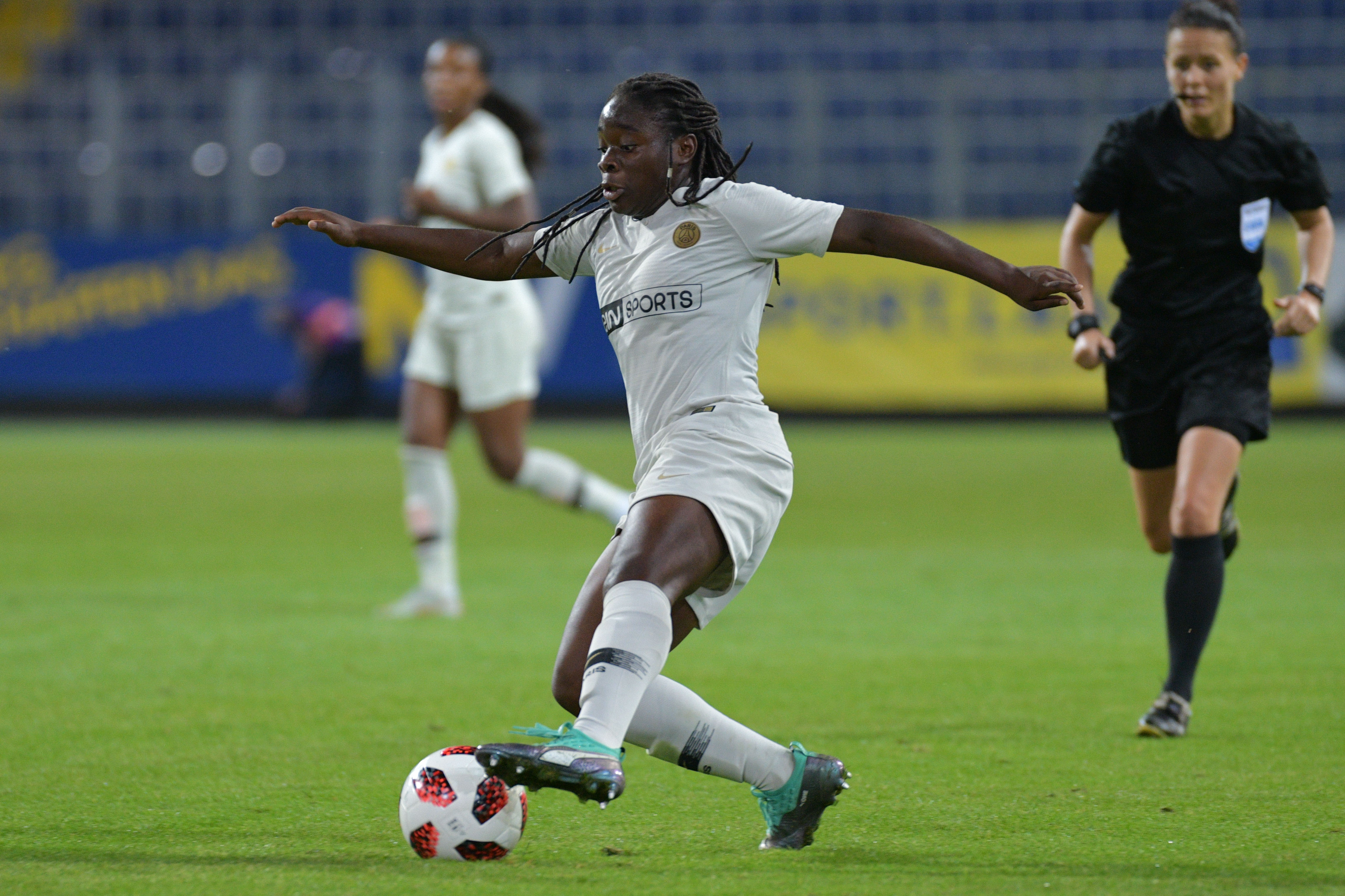 UEFA Women's Champions League 2019 Final Round of 32 SKN St.Poelten vs. Paris Saint Germain 2018/09/12. Picture shows Sandy Baltimore of PSG